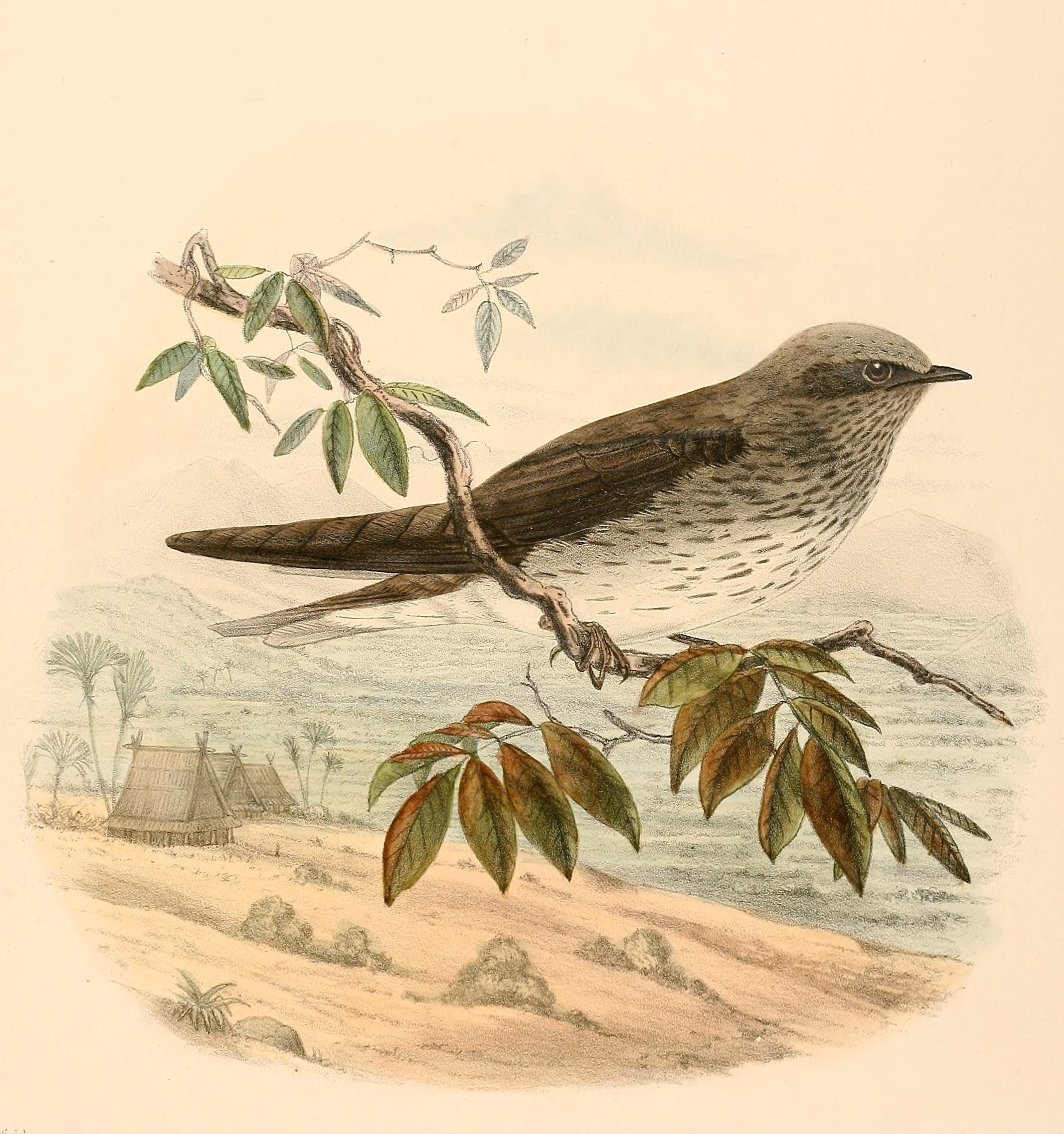 « Phedina madagascariensis » = Phedina borbonica madagascariensis (Subspecies of Mascarene Martin)